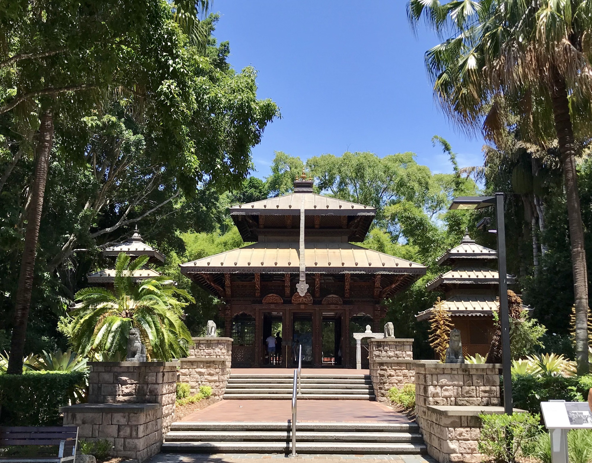 Nepal Peace Pagoda, South Bank, Brisbane